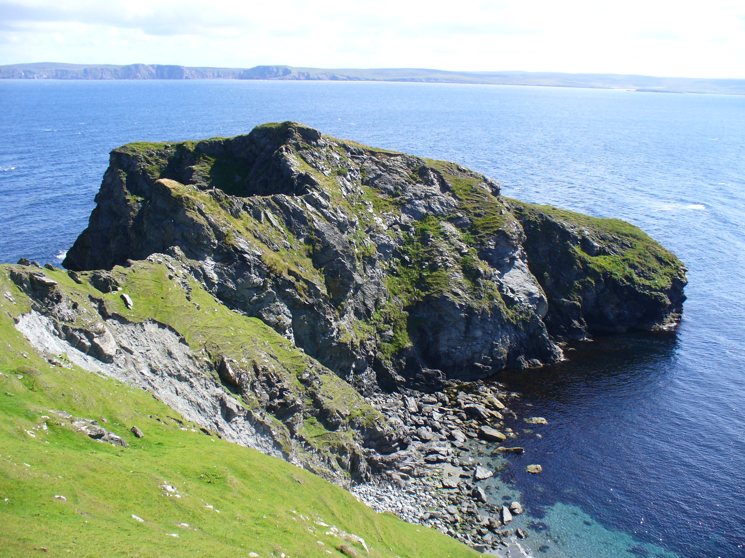 The Kame of Isbister